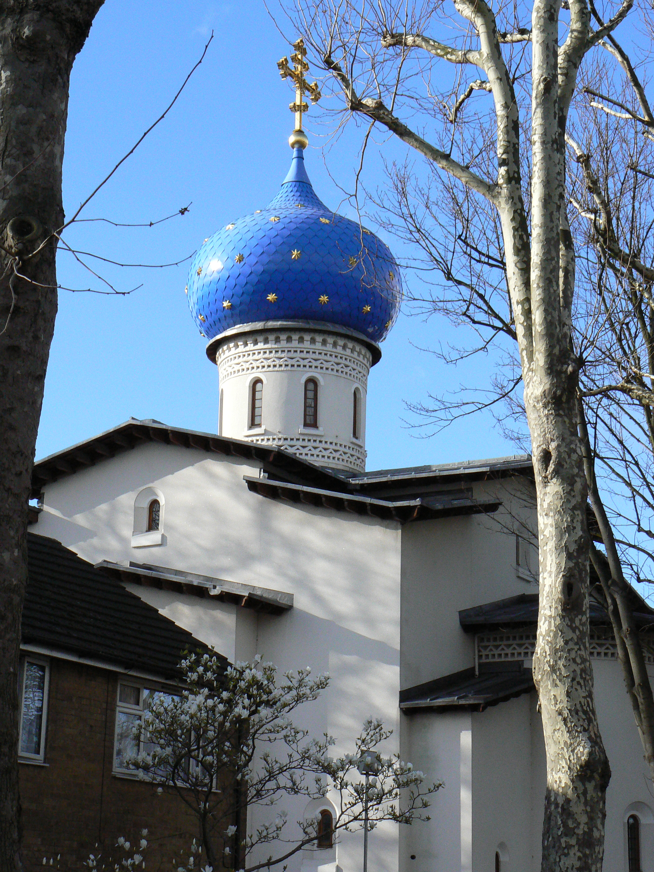 Russian Orthodox Church Abroad, Harvard Road, Chiswick W4, London. U.K.